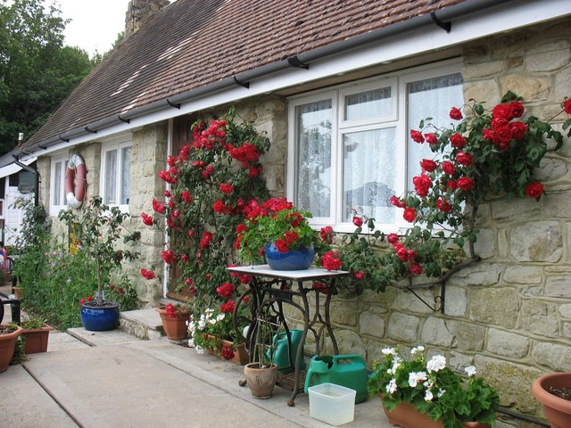 Smugglers Tea Rooms, Upper Bonchurch Off the main Ventnor to Shanklin Road overlooking the landslip. Good views out to sea ideal stop for both walkers and motorists in need of refreshment. Nearby paths lead down in to the Landslip